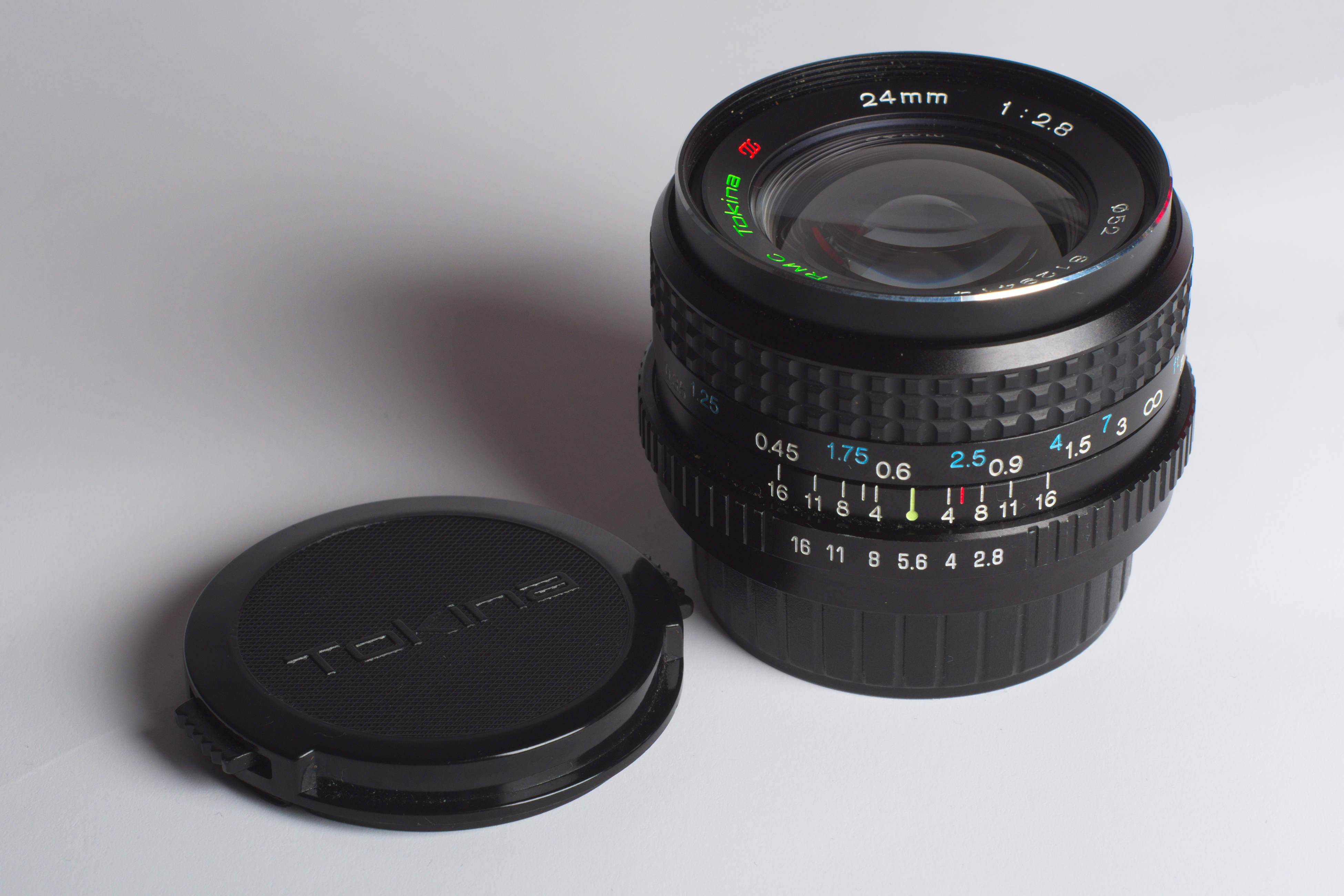 An RMC Tokina 24mm 1:2.8 with lens cap